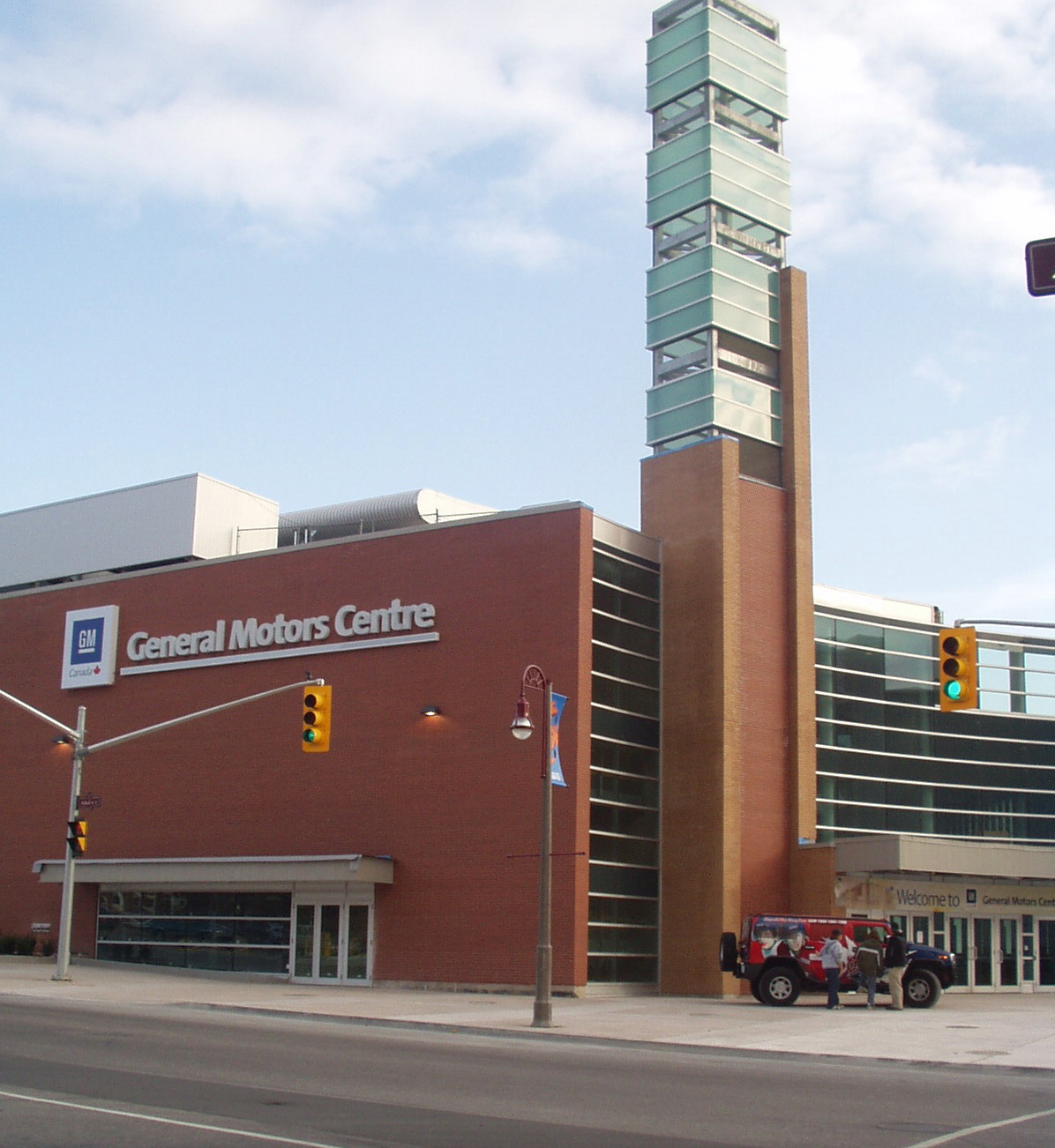 Self-taken photo.